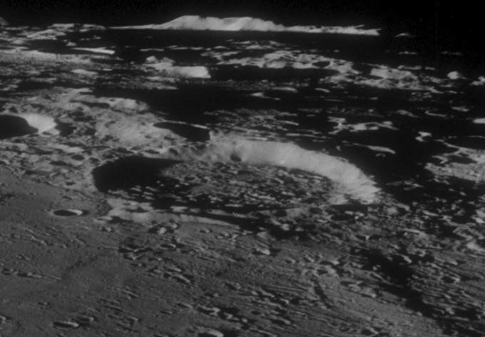 Oblique view of Beaumont crater, Mare Nectaris, on the moon, facing south. The white mountain on the horizon is part of the Rupes Altai.